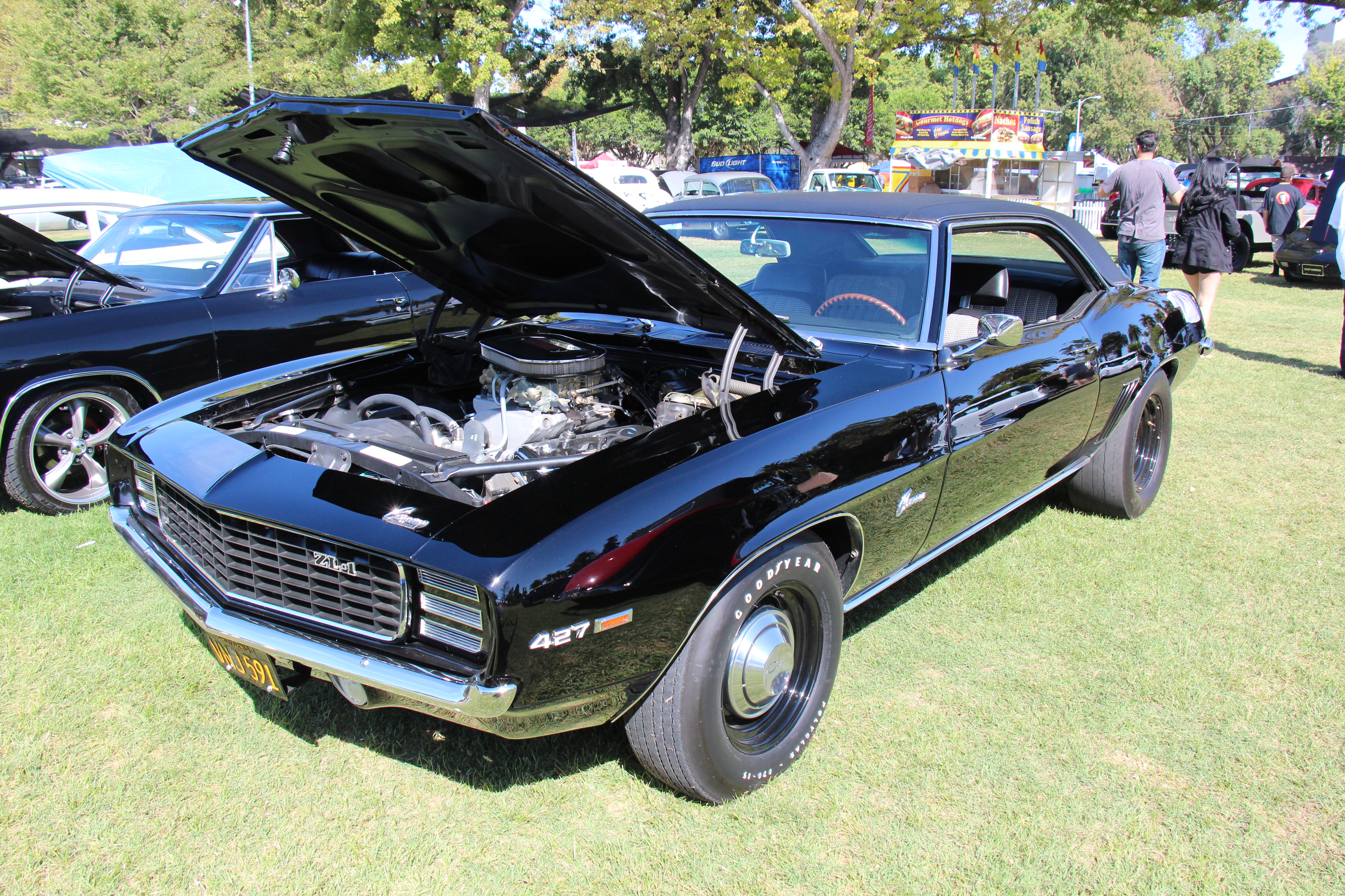 Tuxedo Black. In 1969, the Camaro got all new sheet metal, except the hood and trunk lid, but the drivetrain stayed much the same, the grille got a distinctive V shape and the headlights were inset. It looked lower, wider and more aggressive. Available in base, RS, SS and Z28. Because corporate GM would not allow engines larger than 400 cu in installed in the Camaro, Yenko in Pennsylvania and other dealerships installed either the; COPO 9561 425bhp solid lifter L72 427 cu in (1015 made) or the COPO 9560 430bhp aluminium ZL-1 427 cu in (only 69 made)